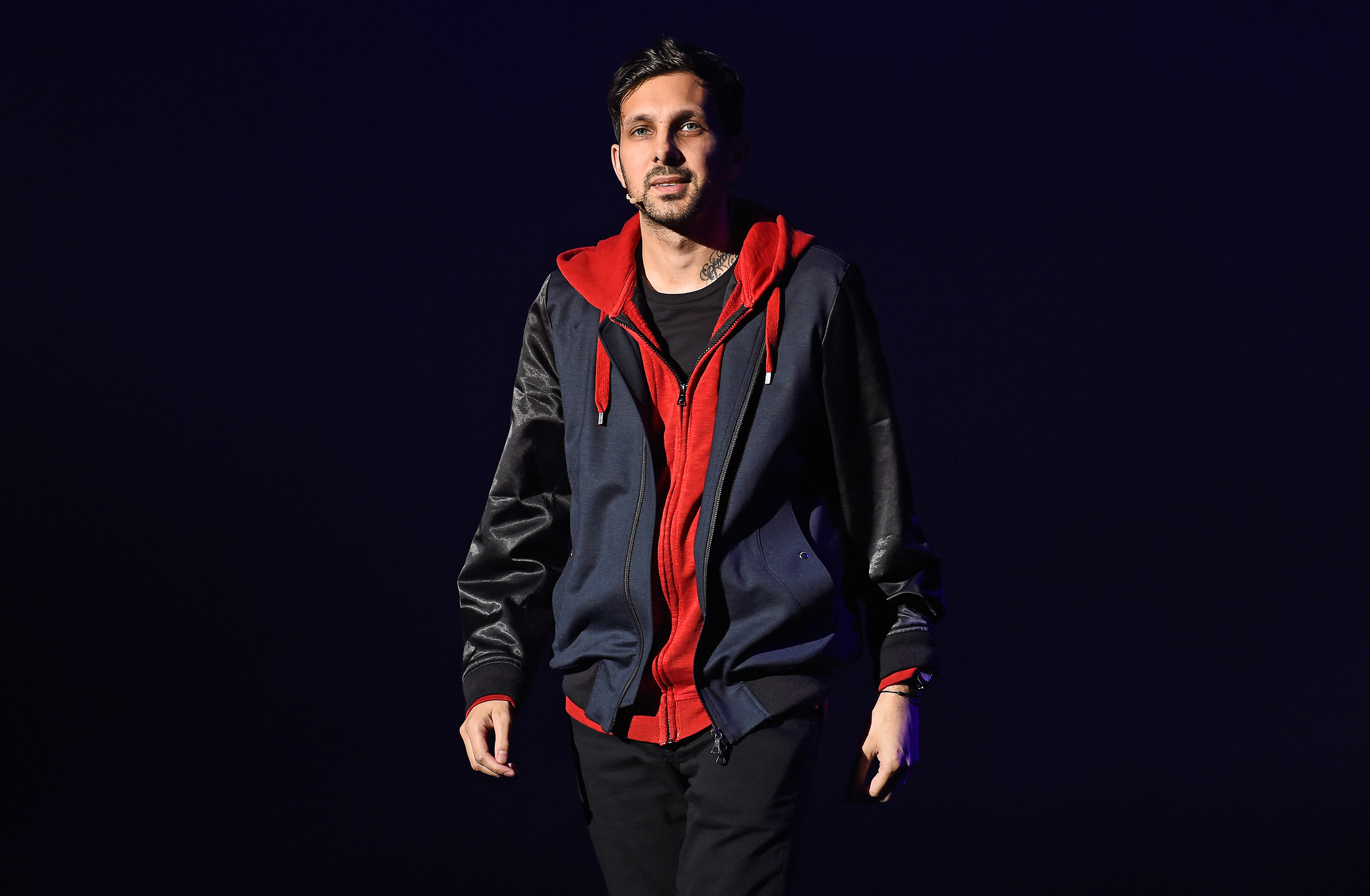 Magiciain Steven Frayne, also known as Dynamo, on stage.